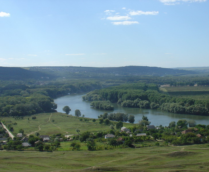 A Moldova landscape preview, Dniester river